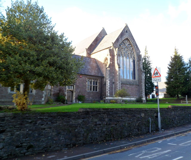 Grade II* listed Priory Church of Our Lady and Saint Michael, Abergavenny